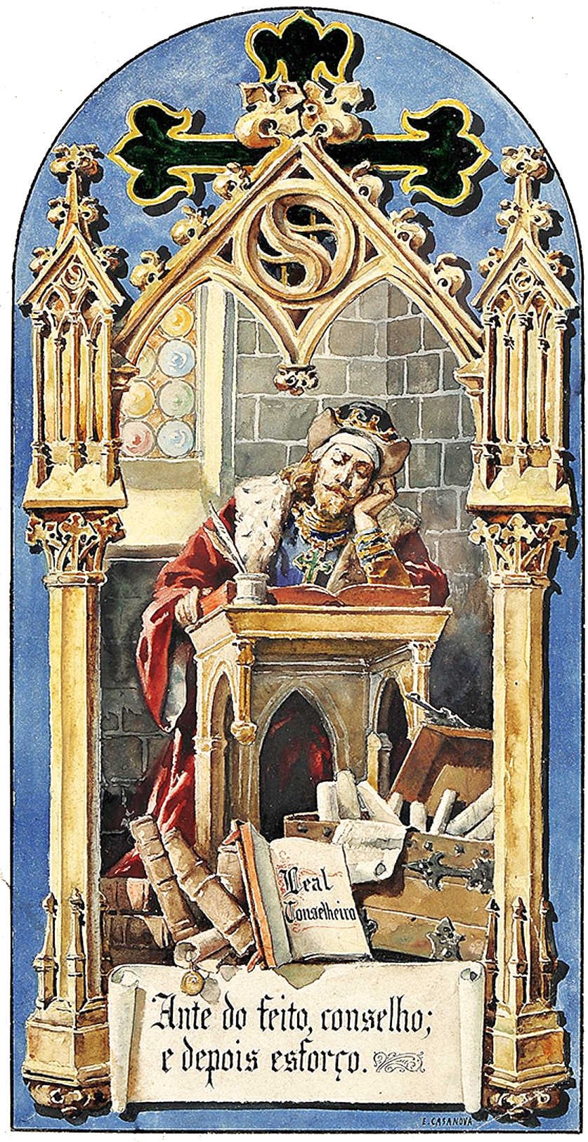 King Edward I of Portugal writing his Leal Conselheiro (c. 1438), a treatise on ethics and morals.